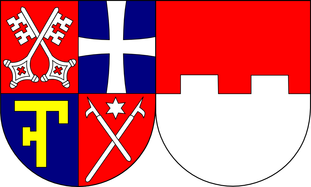 Coat of arms (shield only) of Johann Konrad Augustin Maria Felix cardinal von Preysing-Lichtenegg-Moos, bishop of Eichstätt, Germany (1932 - 1935), bishop of Berlin (1935 - 1950). Cardinal Preysing at the only bishop of Berlin used two shields instead escutcheon.